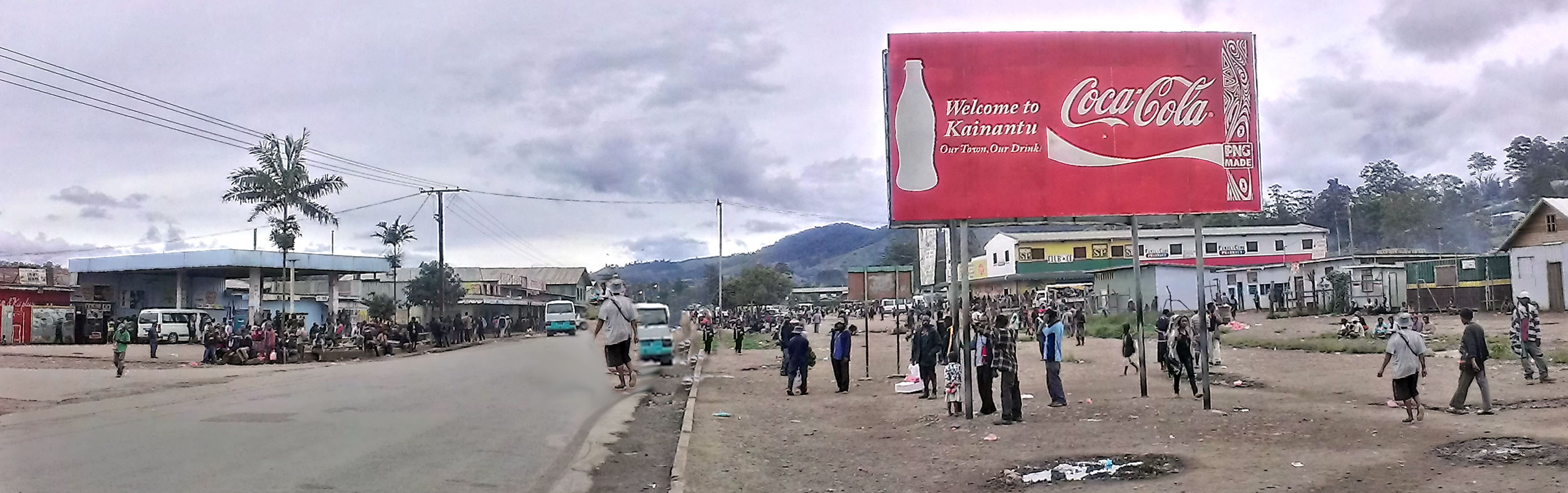 Kainantu on the Highlands Highway. Facing towards Goroka